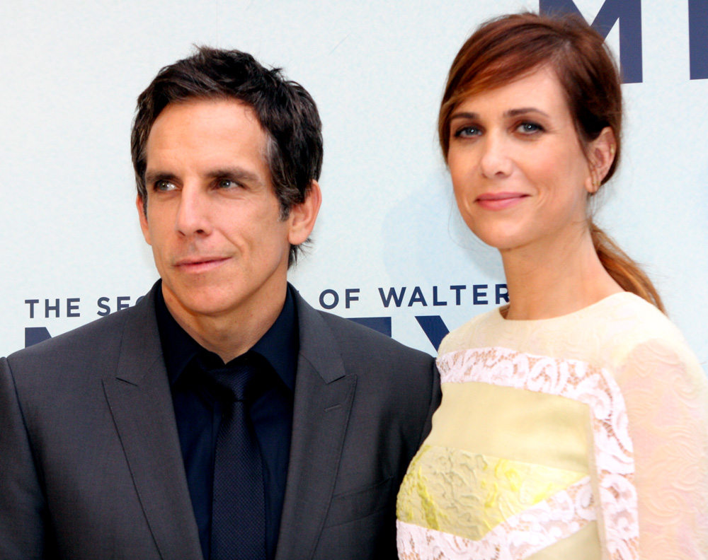 The Secret Life Of Walter Mitty Premiere in Sydney, Australia